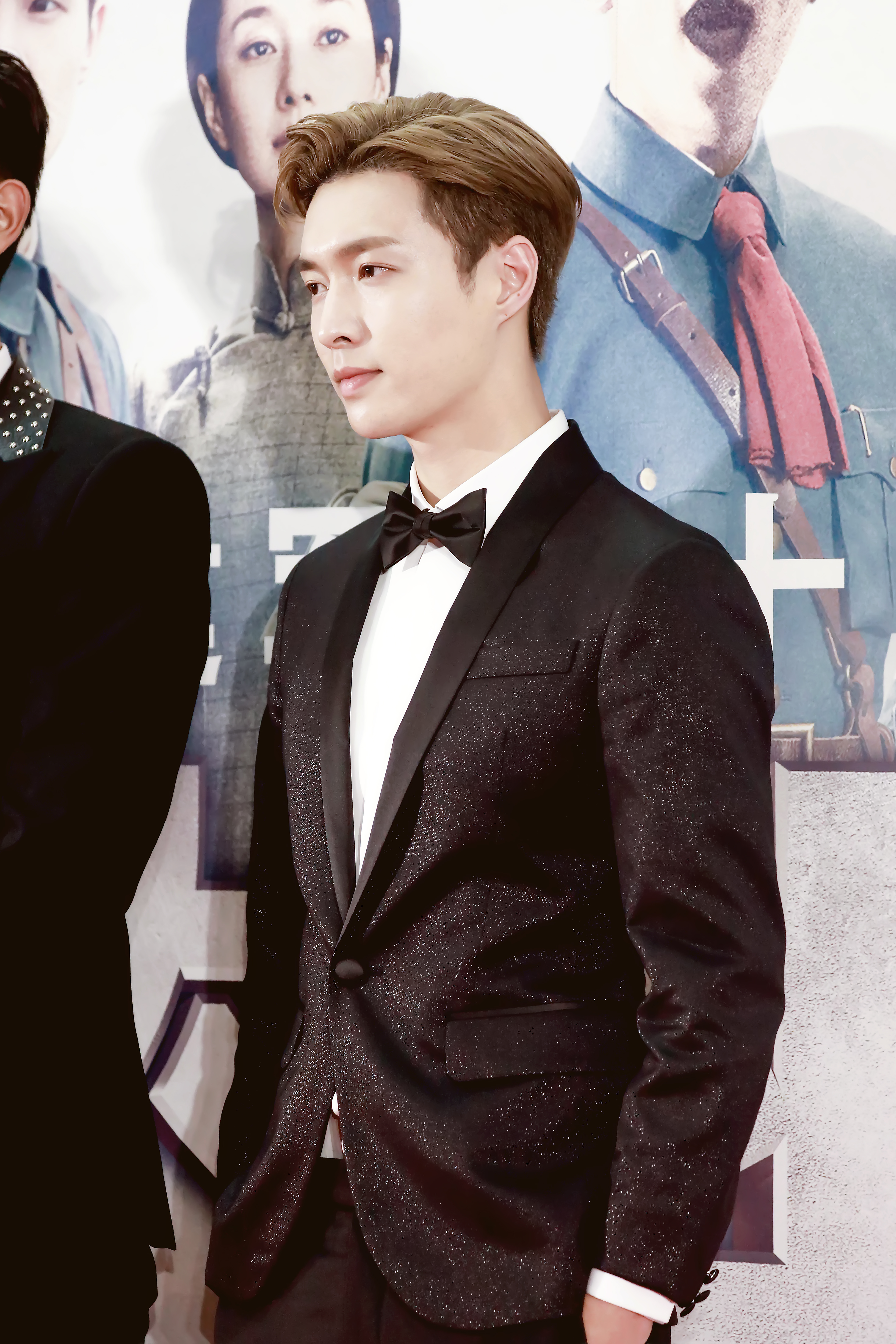 Yixing attending film TFOAA press in July